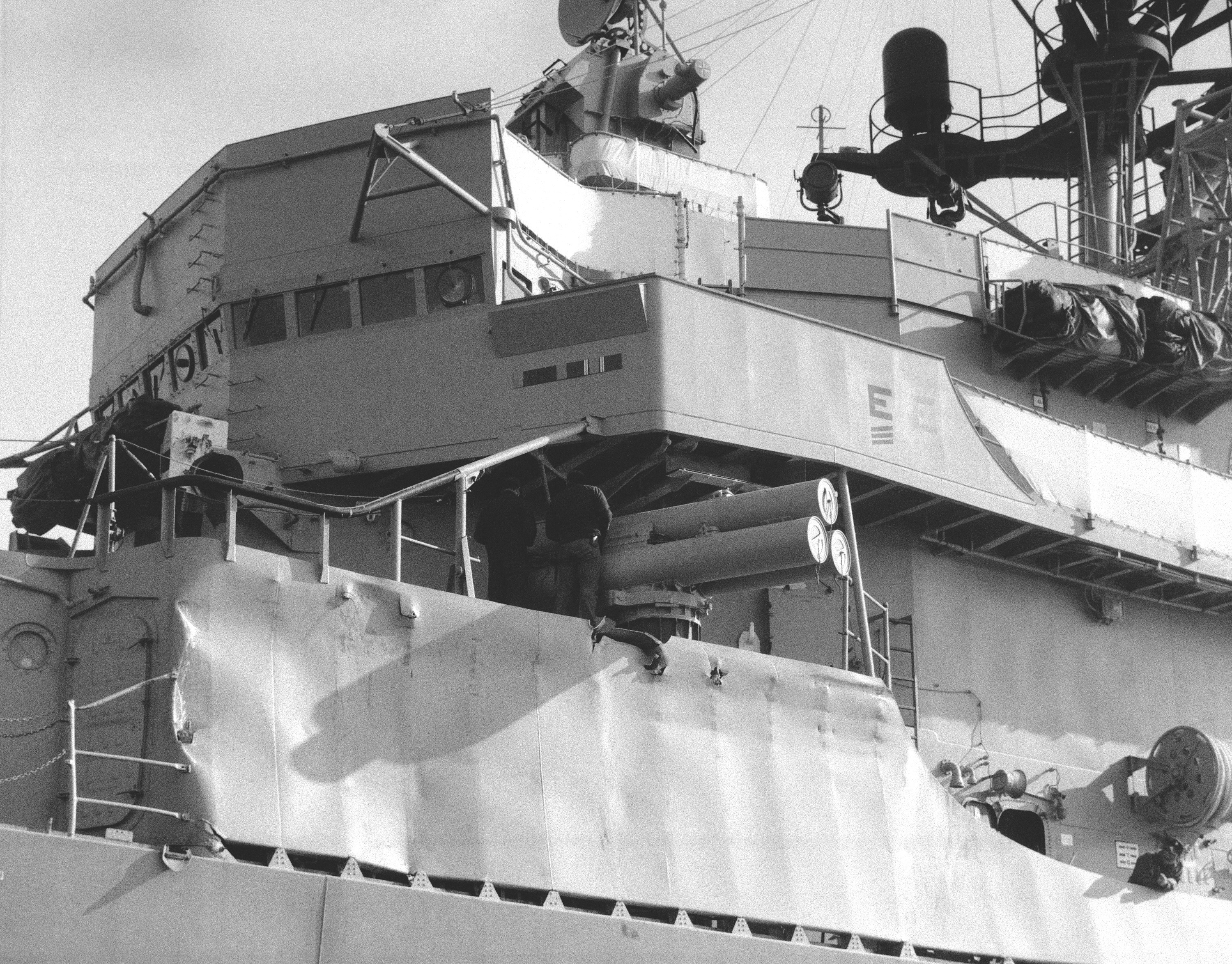 A view of damage sustained by the guided missile destroyer USS CLAUDE V. RICKETTS (DDG 5) while fighting a fire aboard the guided missile cruiser USS BELKNAP (CG 26). The BELKNAP was heavily damaged and caught fire when it collided with the aircraft carrier USS JOHN F. KENNEDY (CV 67) during night operations on November 22, 1975. Location: IONIAN SEA